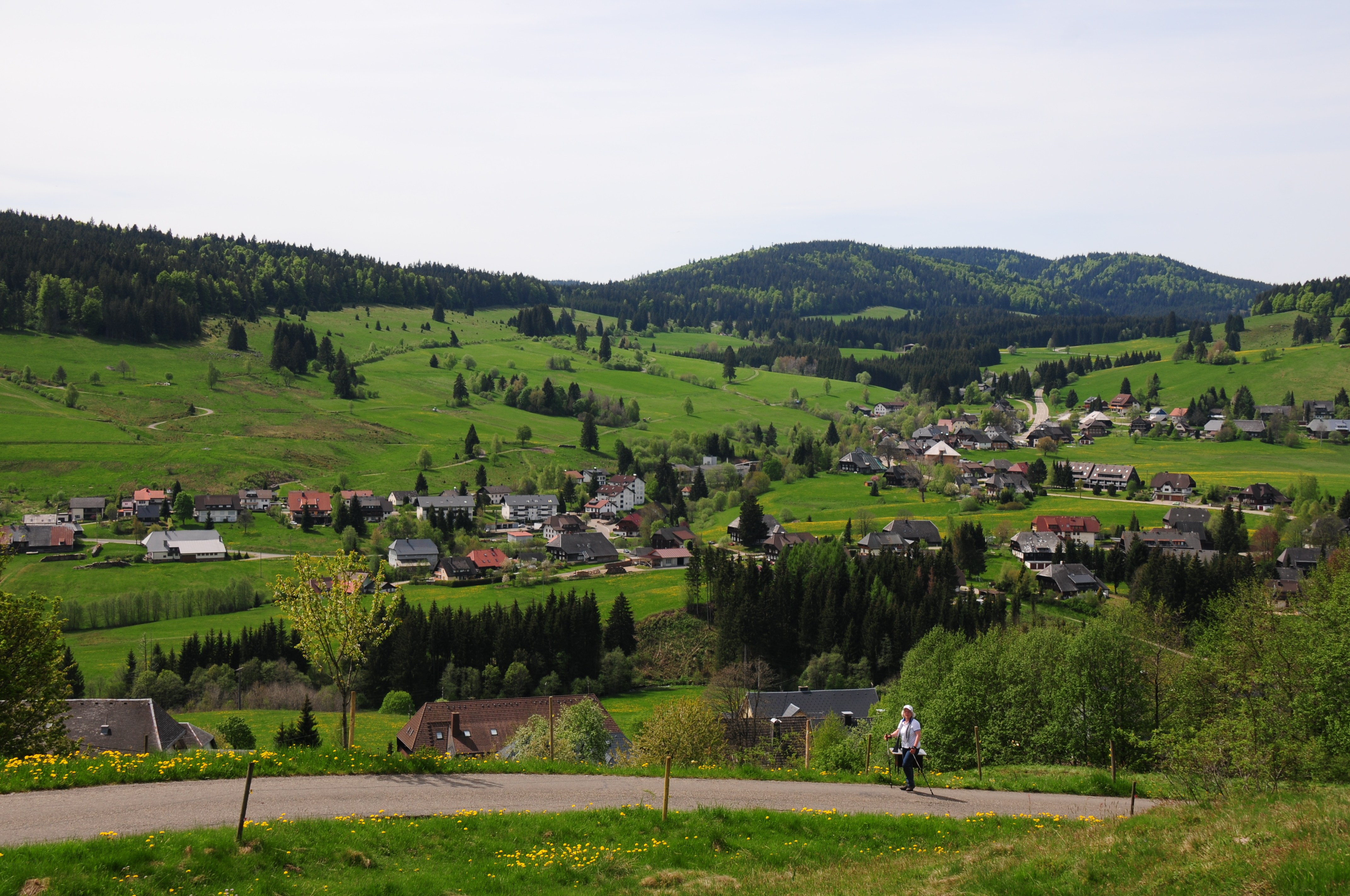 Panoramic view to the Southside of the Bernau valley